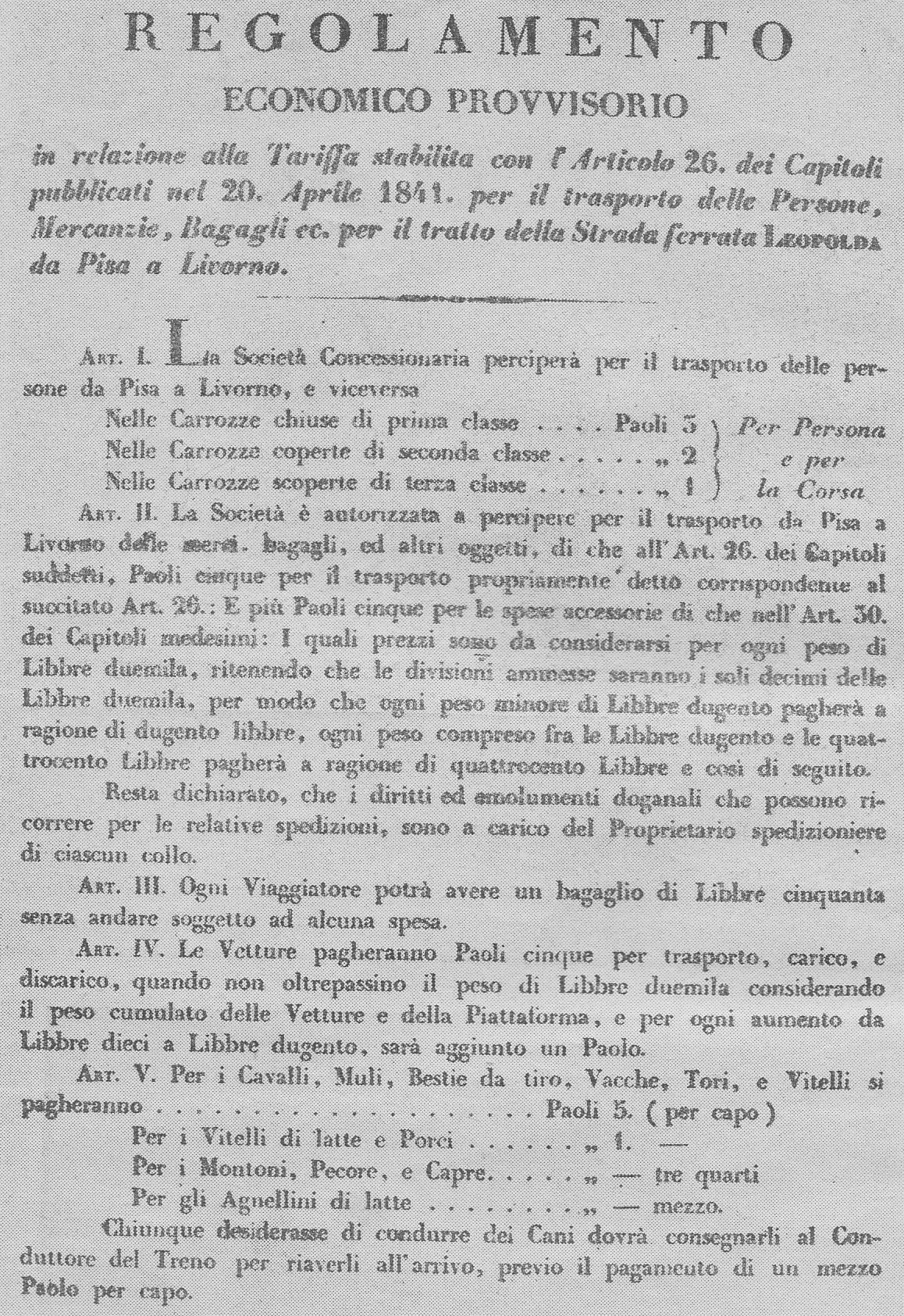 First price list of Leopolda Railways, Tuscany, Italy.